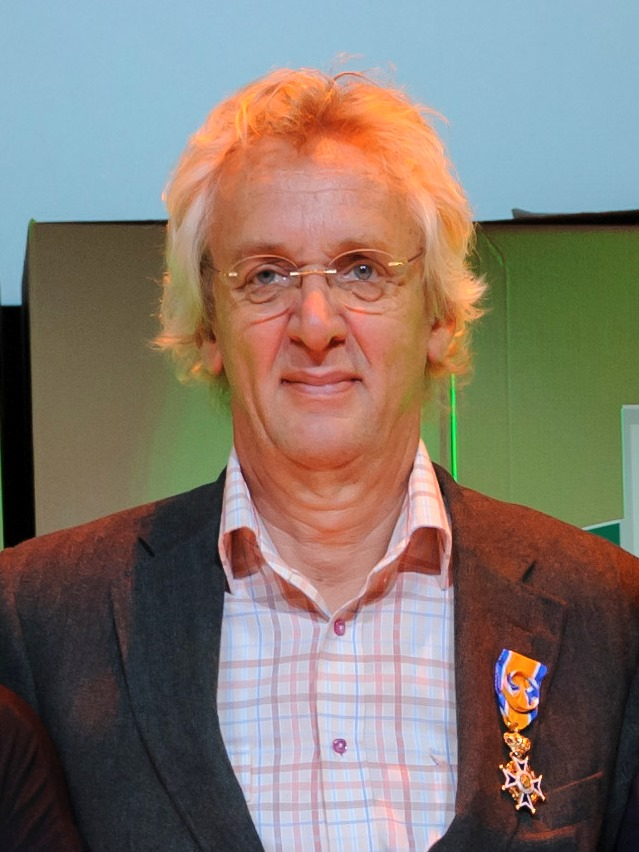 Boudewijn Poelmann at the Postcode Lottery Green Challenge 2012